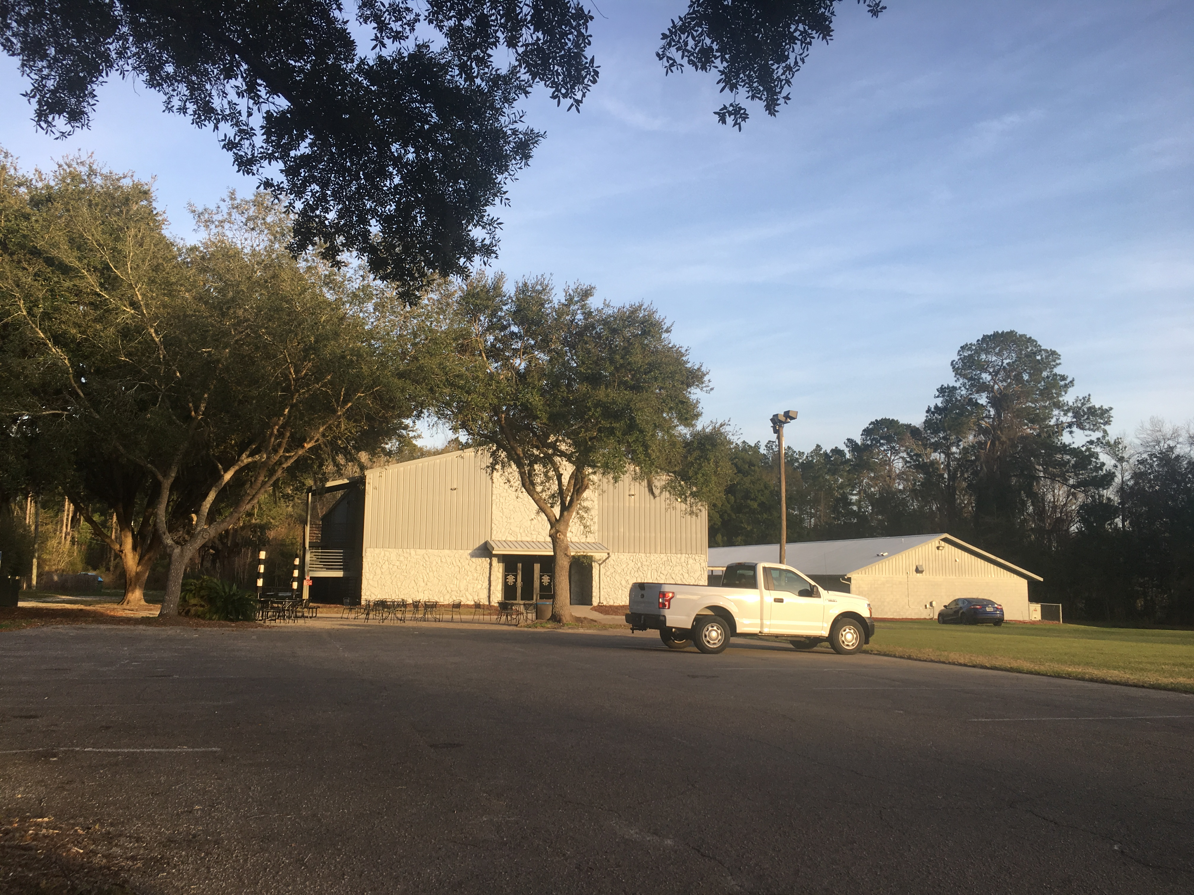 Alive Church, Gainesville, Florida. Site of former Dove World Outreach Center